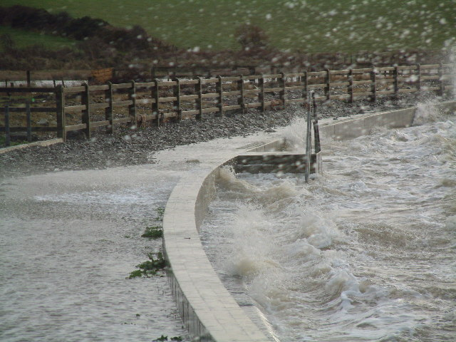 Aylevarroo. Wild Winter weather at Aylevarroo beach, Kilrush, Co. Clare, in Moyne Bay on the Shannon Estuary.